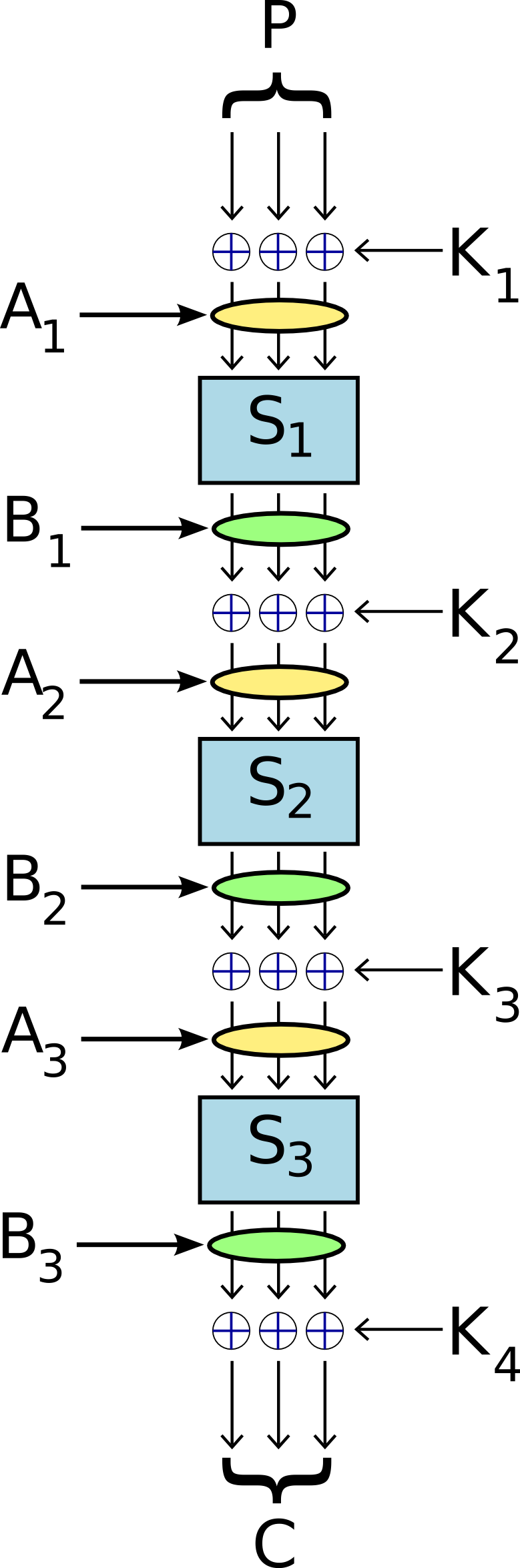 fake cipher to ilustrate linear cryptanalysis